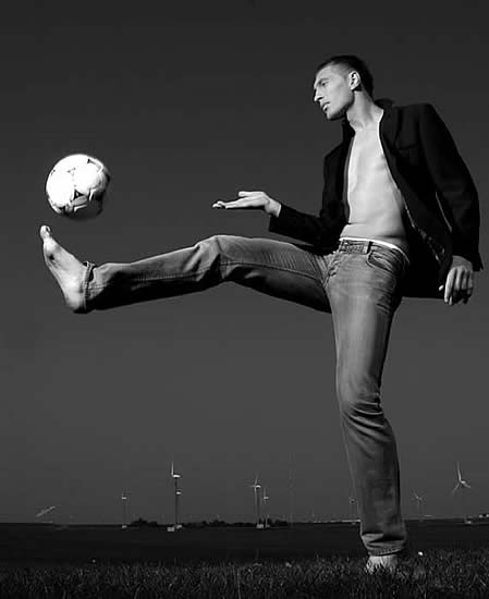 Evgeniy Levchenko, Dutch soccer player